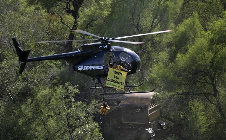 Greenpeace activists campaigning against deforestation in the Chaco.